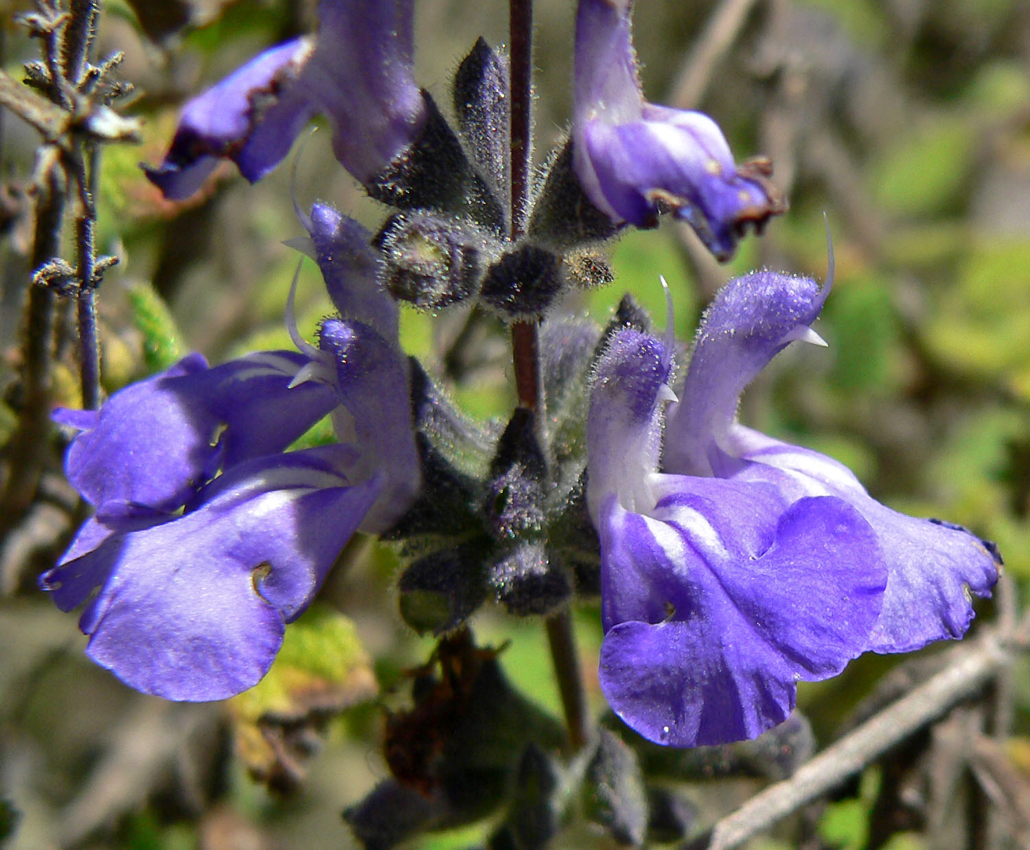 Salvia melissodora at the University of California Botanical Garden, Berkeley, California